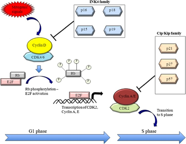 Multiple myeloma paper